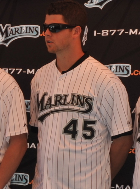 MIAMI - Coast Guard Capt. Dave Cinalli, commanding officer of Personnel Services and Support Unit Miami, presents a token of appreciation to David P. Samson, Florida Marlins president, and Florida Marlins baseball players in attendance at Coast Guard Base Support Unit Miami Feb. 14, 2010. Personnel from the Florida Marlins franchise were in attendance at BSU Miami as part of their salute to the troops outreach program. U.S. Coast Guard photo by Petty Officer 3rd Class Barry Bena.